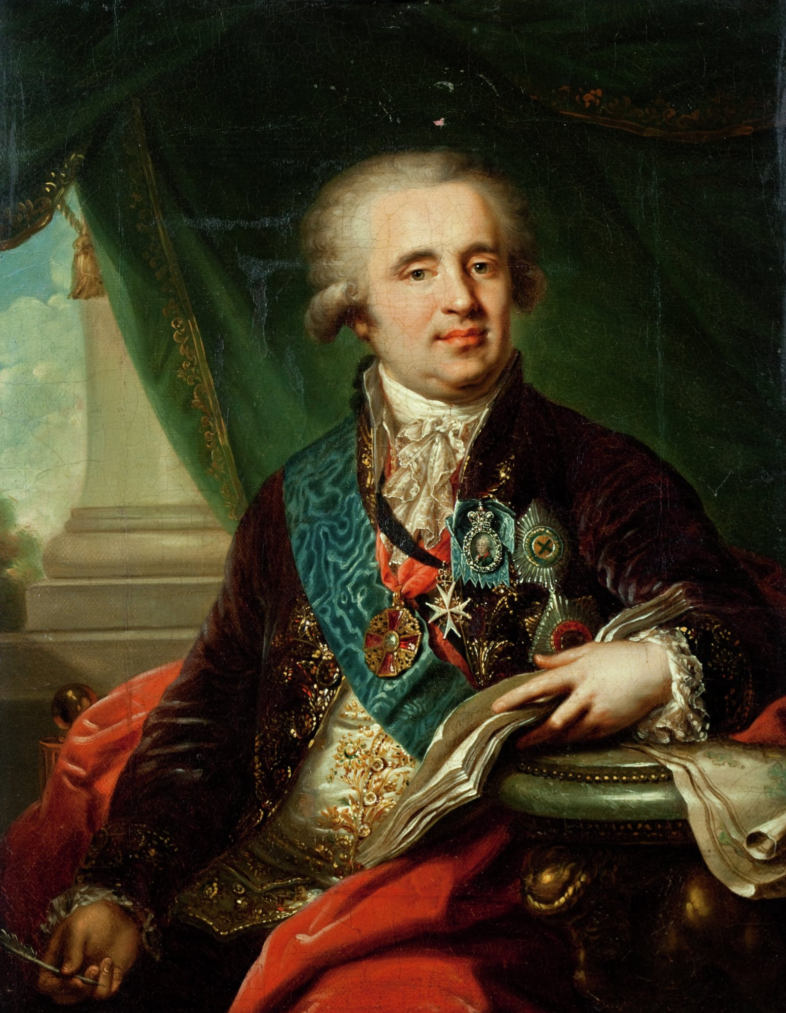 Portrait of Alexander Bezborodko Made by: Lampi, Johann Baptist the Elder __After Currently in storage About this object Prince Alexander Bezborodko (1747-1799) is seated at a table holding an open notebook and pen and dressed in an elaborate embroidered 18th century waistcoat and coat. In background a green curtain and a column. Secretary of Paul I. Wears badge of the imperial order of St. George, a diamond framed miniature of Paul I and stars of the other orders. Category: PAINTINGS Object name:Oil PaintingMade from: Oil on canvas Made in: RUSSIA Date made:ca. 1800 Size: H. 14 in., W. 11 in. overall __35.56 CM __27.94 CM